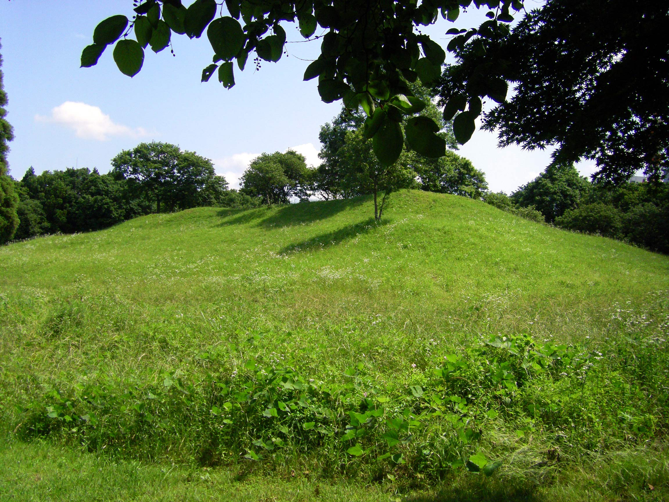 Funaduka Tomb